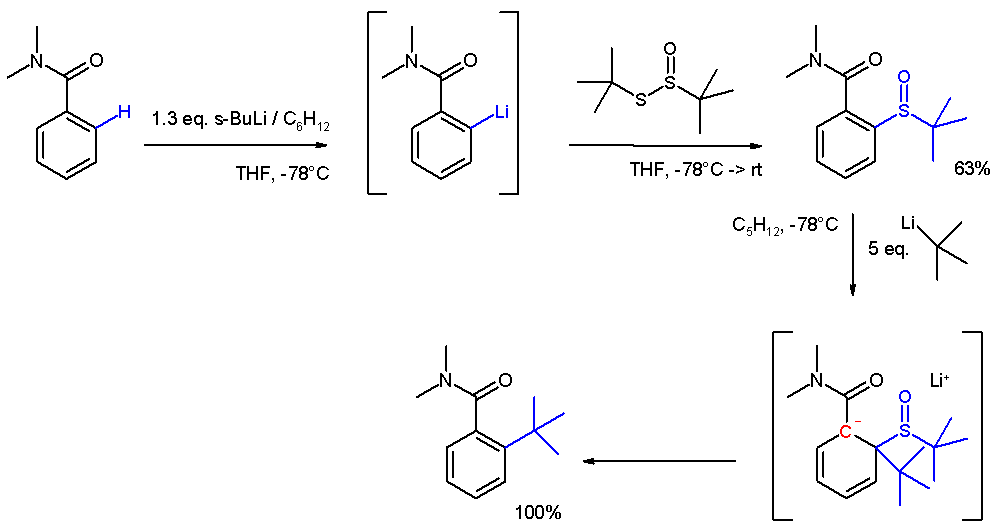 DOM application ref.